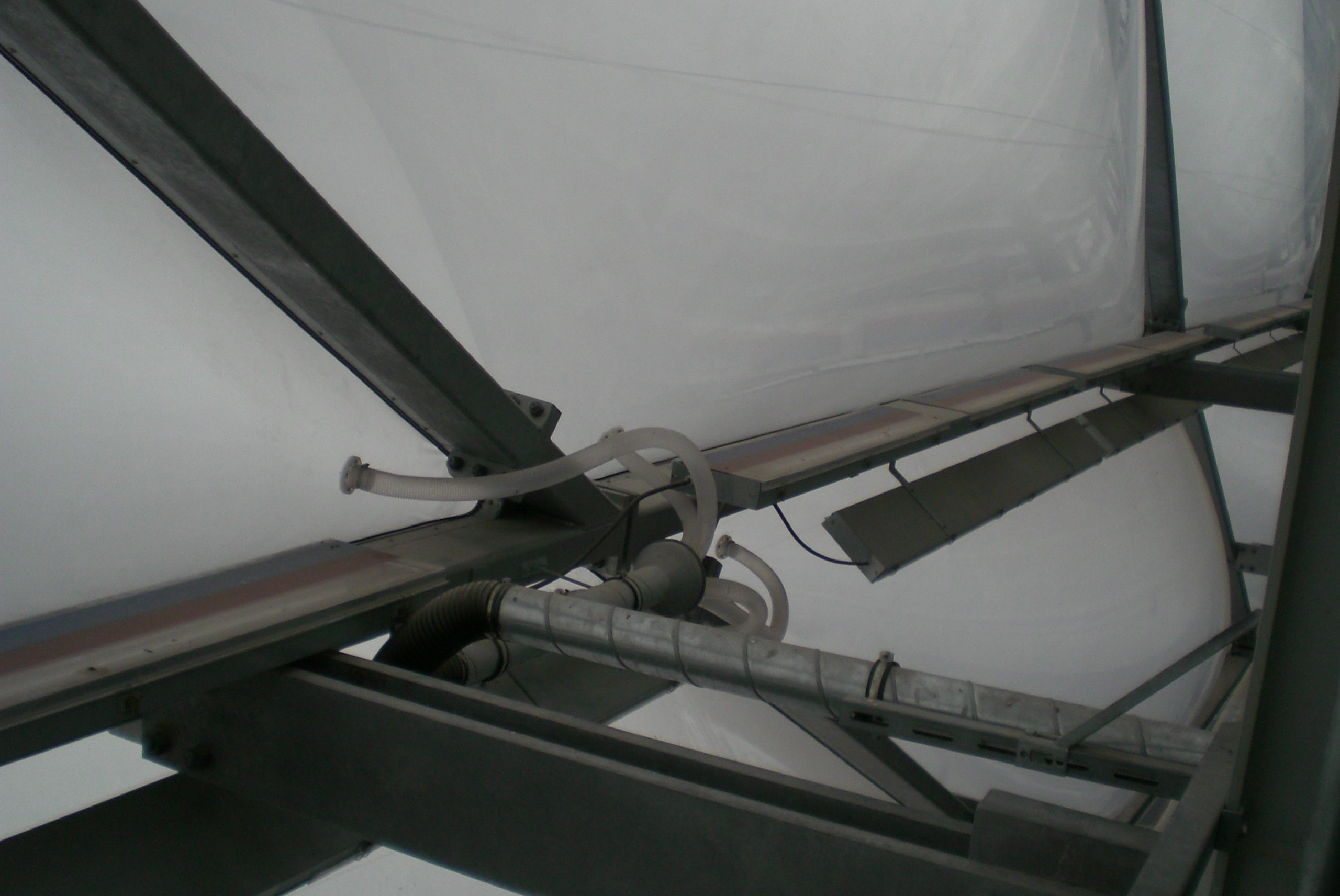 Allianz Arena in Munich, Bavaria- Technical Detail.